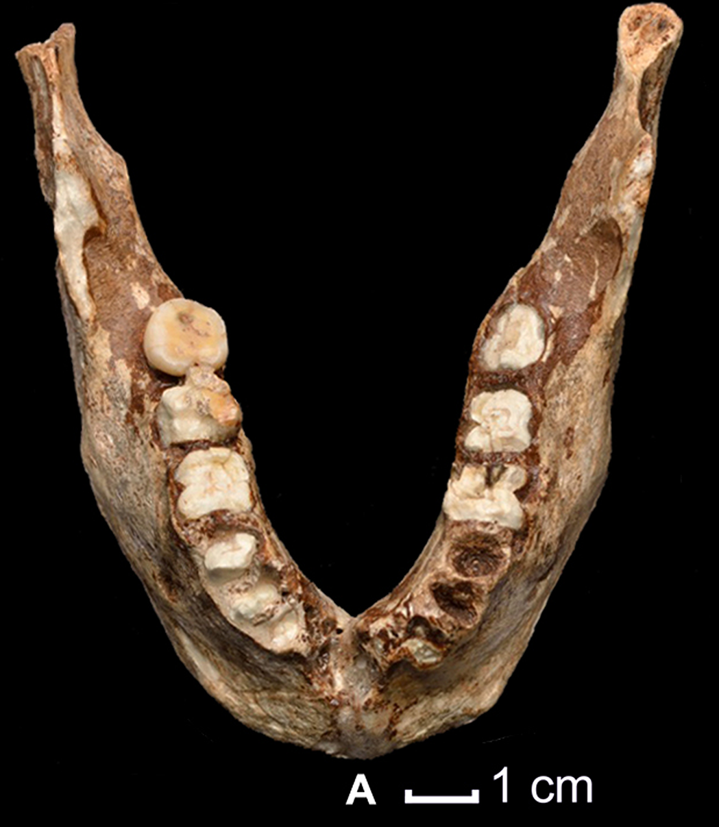 Human fossil remains designated as TPL2. From Tam Pa Ling‘s cave in Laos. Mandible in norma verticalis